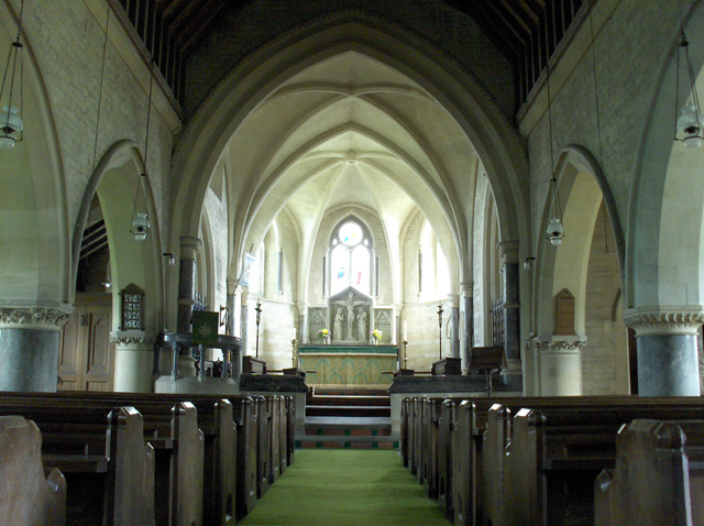 Church of England parish church of St Mary the Virgin, Great Fawley, Berkshire: Interior of nave, looking east towards the chancel